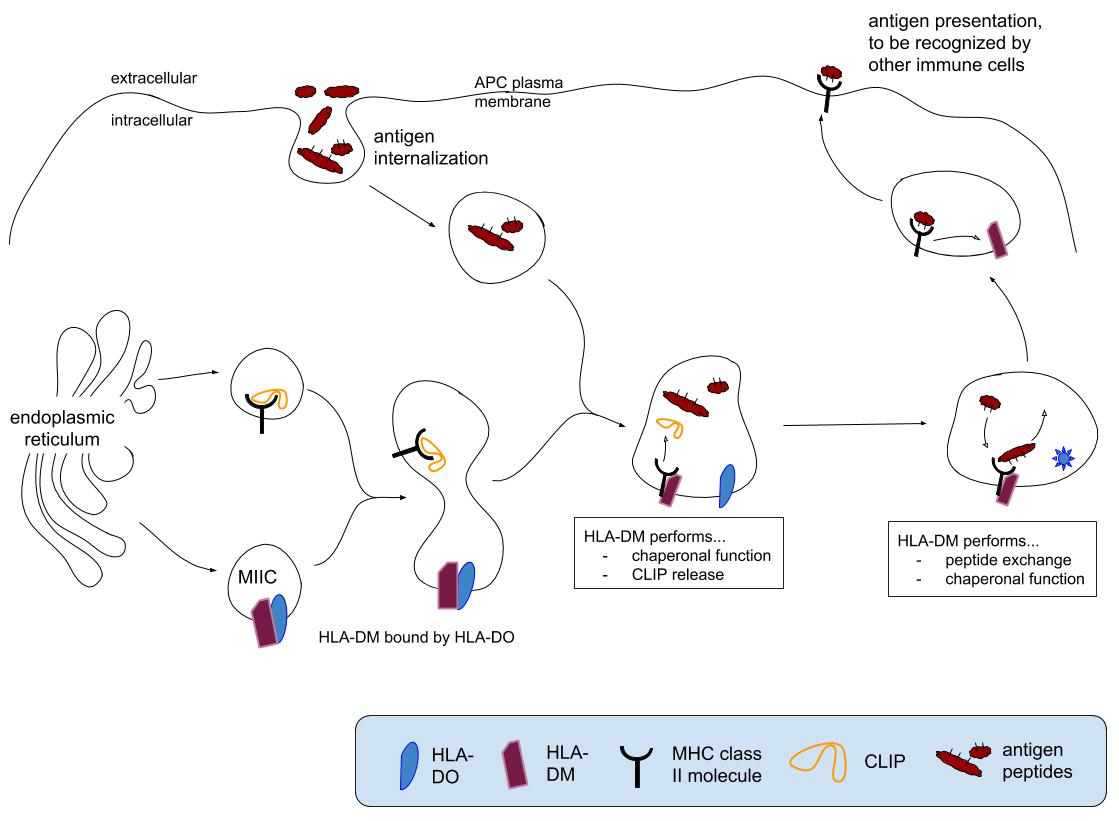 HLA-DM is synthesized in the endoplasmic reticulum (ER) of antigen presenting cells (APCs), and transported in endosomes while binding to HLA-DO. The HLA-DM containing endosome fuses with an MHC class II containing endosome, which then subsequently fuses with an antigen-containgin endosome. Once in the presence of antigen, HLA-DM associates with MHC class II and releases CLIP form the peptide binding groove. HLA-DO degrades, and HLA-DM facilitates peptide exchange to ensure high affinity binding between the MHC class II and it's peptide. The late endosome then fuses with the plasma membrane to present MHC class II + peptide on its surface. This can be recognized by other immune cells and initiate a response.